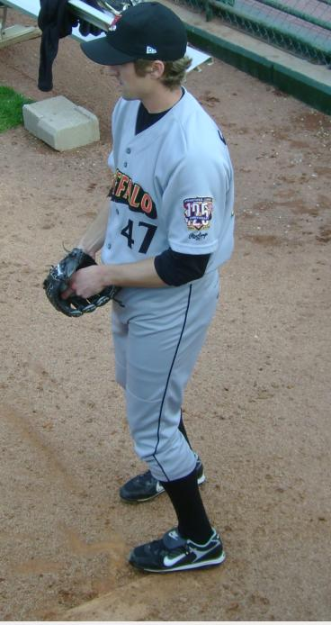 Jeremy Sowers warms up at Frontier Field 5/12/08 05:52, 13 May 2008 . . Phil5329 . . 368×694 (42 KB)